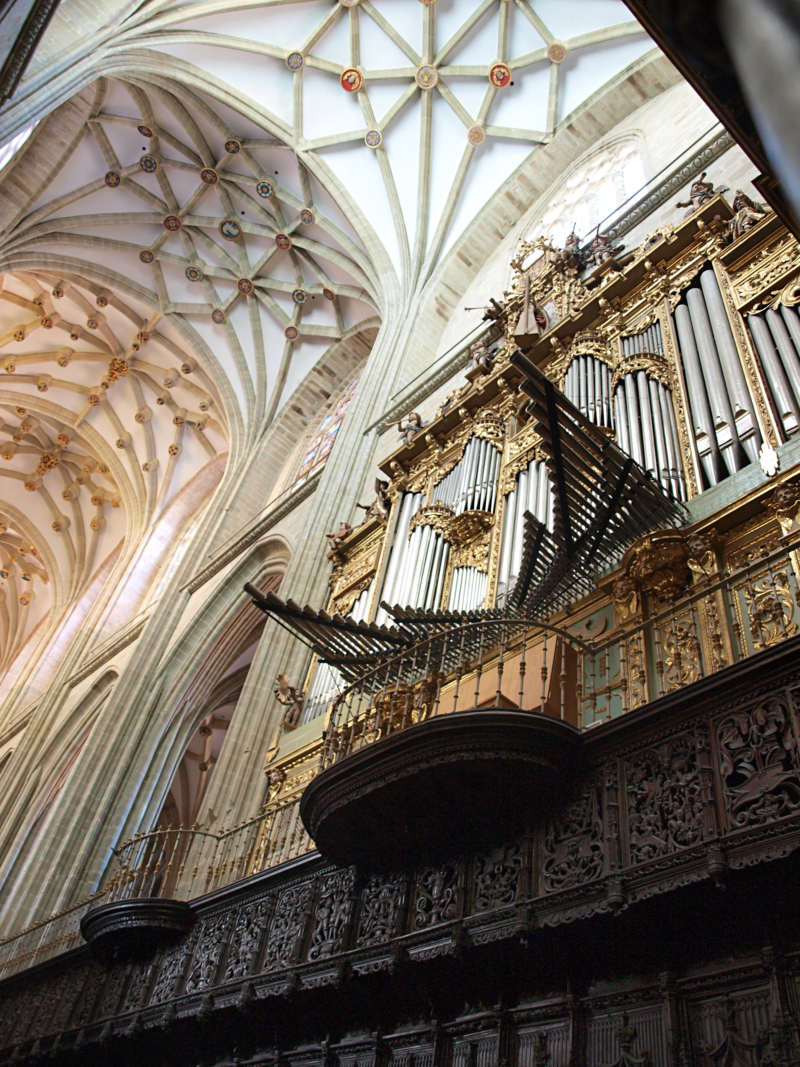 Astorga Cathedral, Astorga (Province of León, Spain).